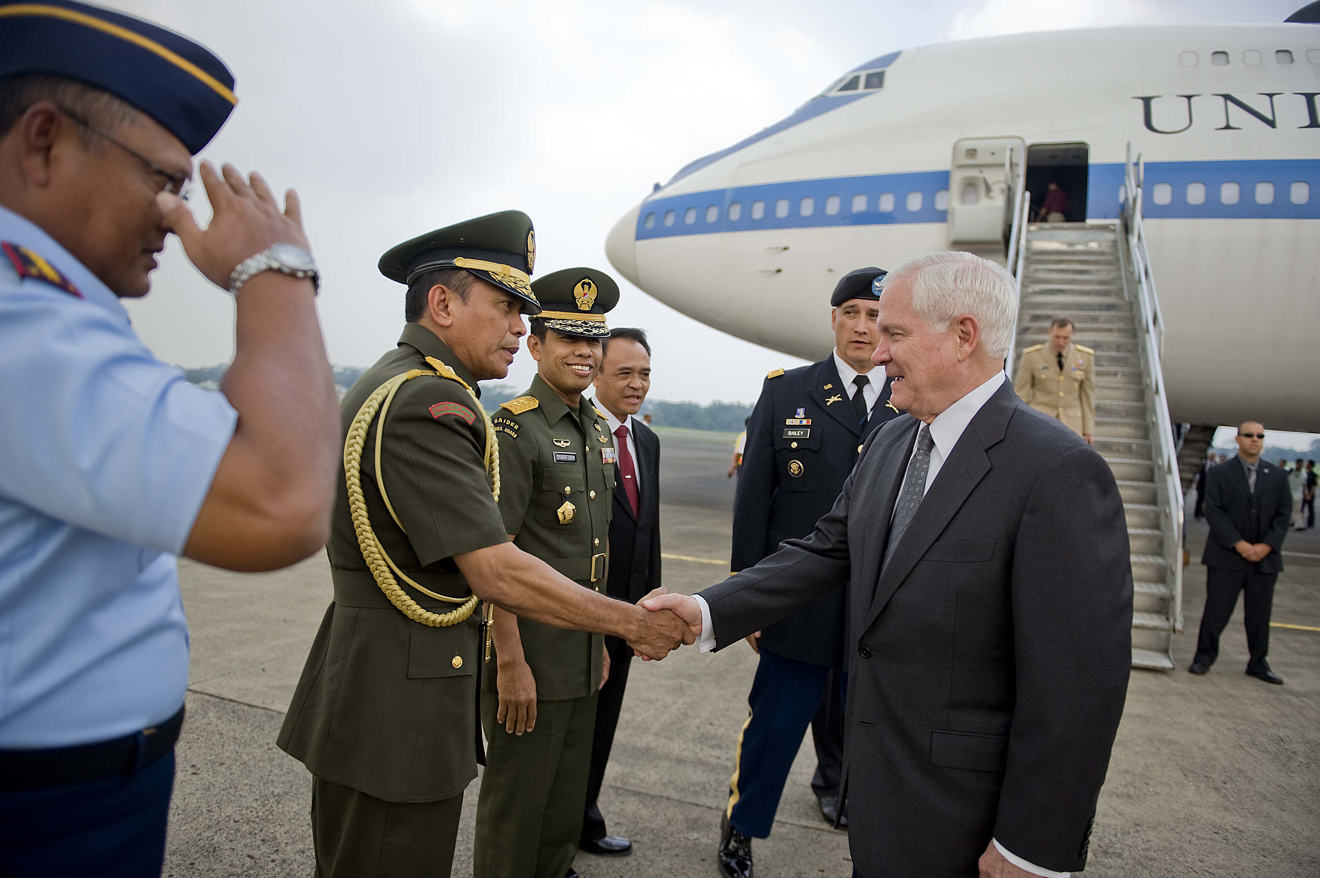 Secretary of Defense Robert M. Gates is greeted by Indonesian military members after his arrival at the Halim Perdanakusuma International Airport in Jakarta, Indonesia, on July 22, 2010. Gates is in Jakarta to meet with President of the Republic of Indonesia H. Susilo Bambang Yudhoyono and Indonesian Defense Minister Purnomo Yusgiantoro.